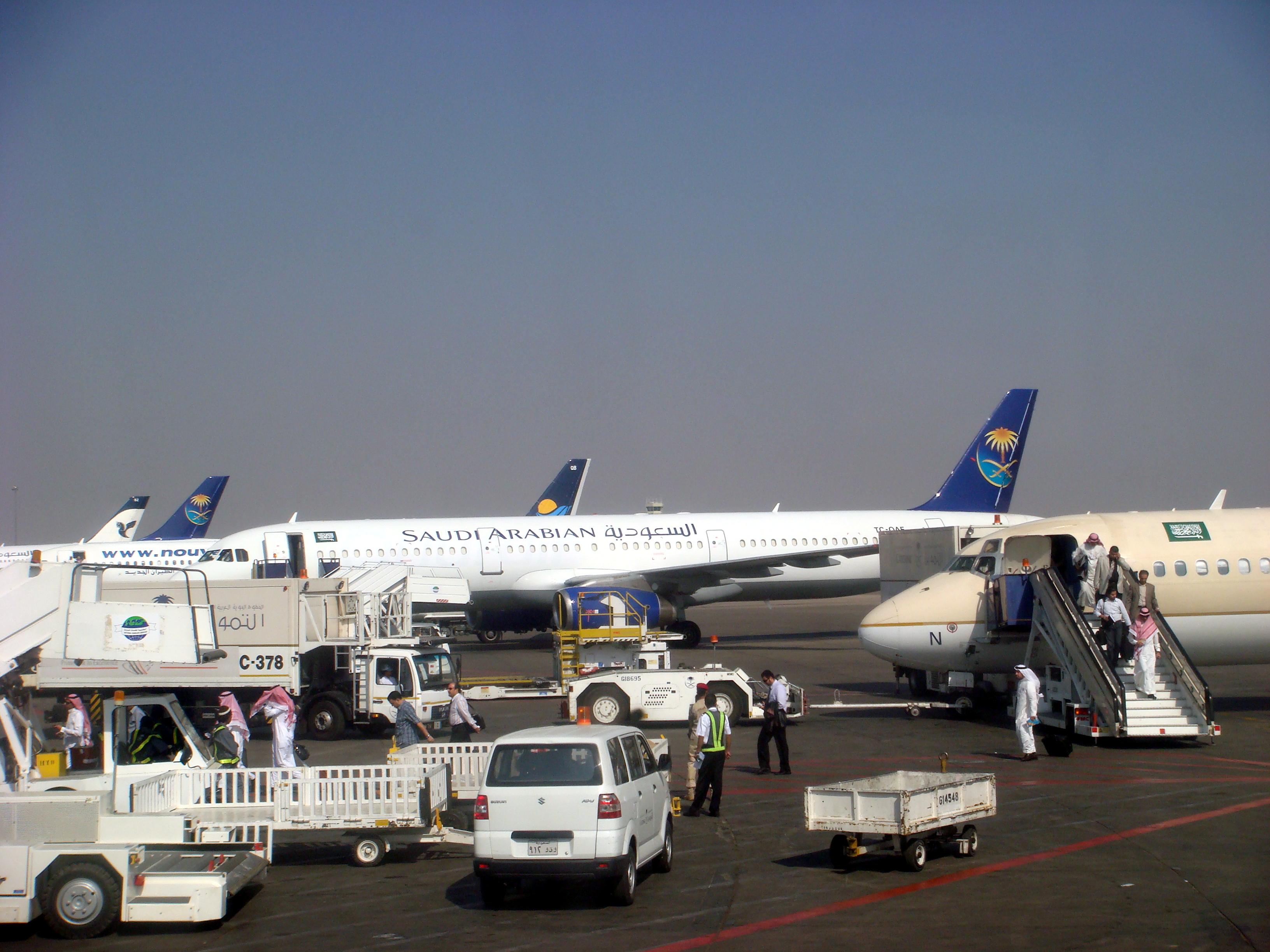 View of the Apron of Prince Mohammad Bin Abdulaziz International Airport on a busy Saturday of the 2008 Haj Season. The Airport saw upto ten times its usual traffic in this Haj Season, with most of the traffic constituting of Haj charters. In view are aircrafts wet leased by Saudi Airlines bearing the temporary Saudi colours. Also seen in the front is a scheduled Saudi MD-90 arriving from Riyadh and an Iran Air in the distant background.